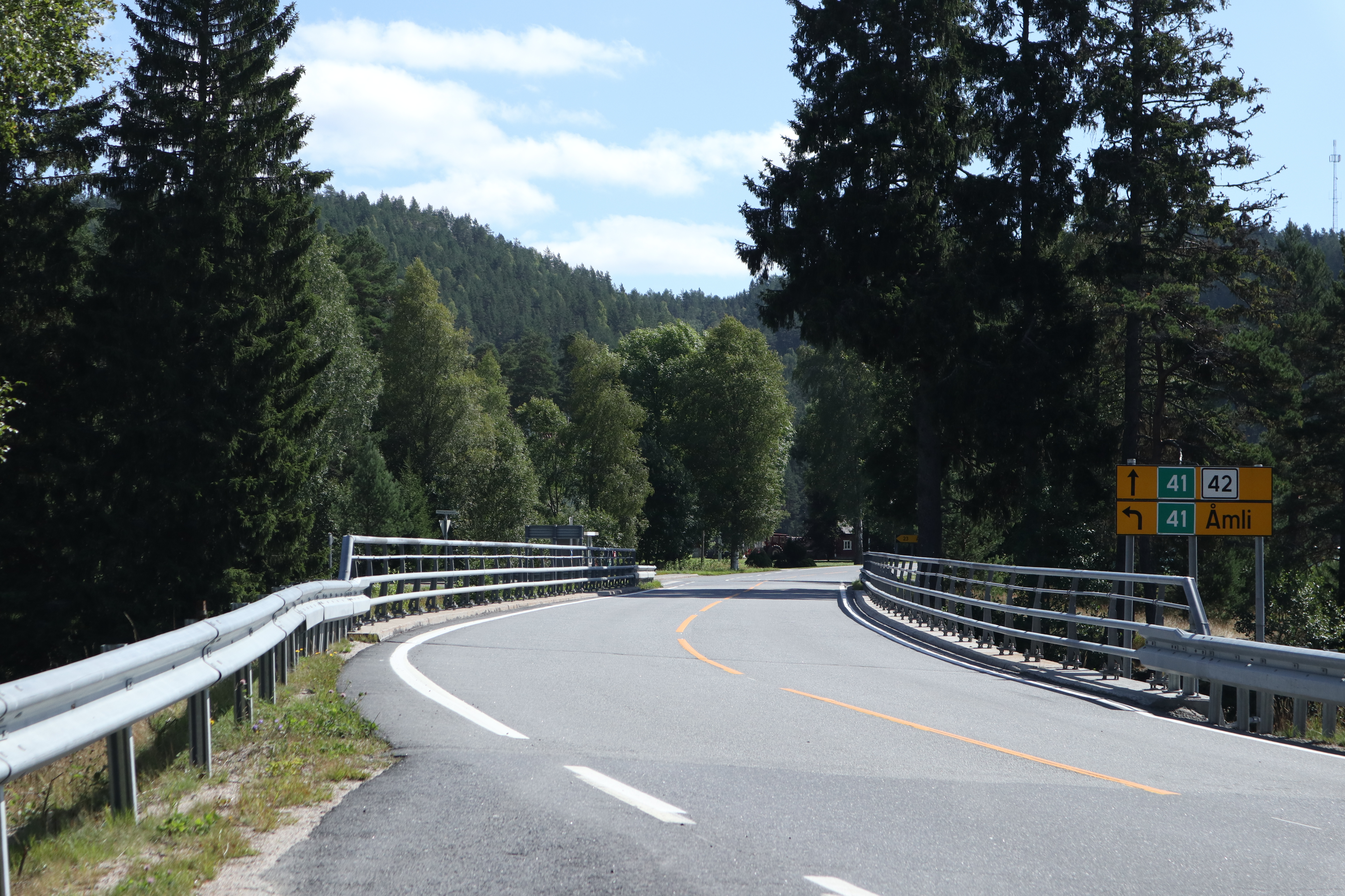 The River Tovdalselva by Svenes